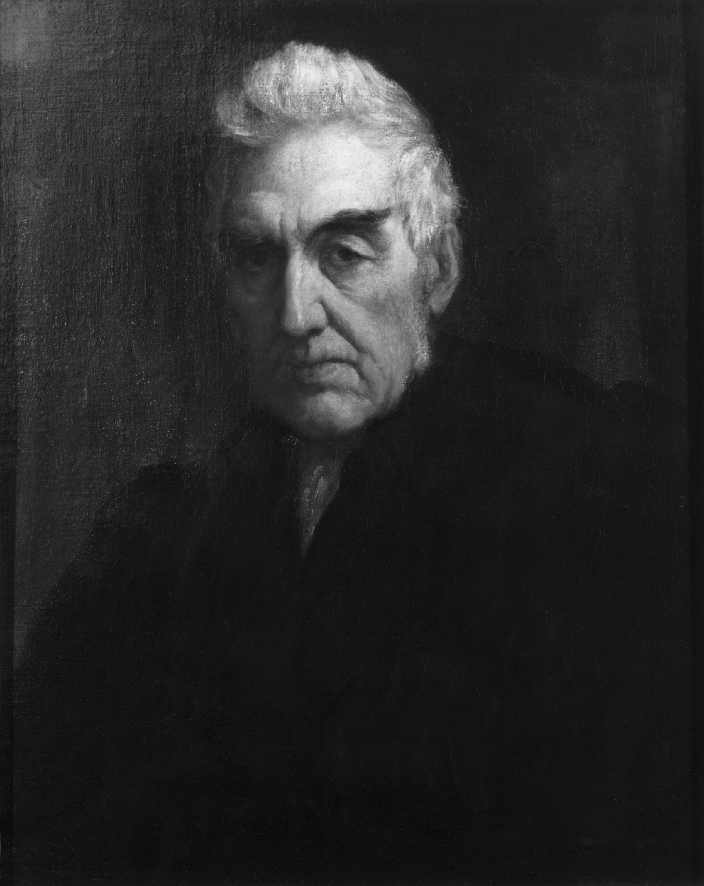 Henry Hart Milman, by George Frederic Watts (died 1904), given to the National Portrait Gallery, London in 1902. All images in this batch have been confirmed as author died before 1939 according to the official death date listed by the NPG.